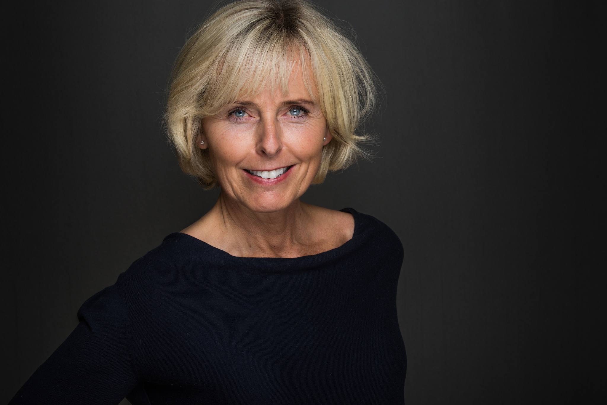 Swedish TV presenter and actress Annica Liljeblad (1962-)